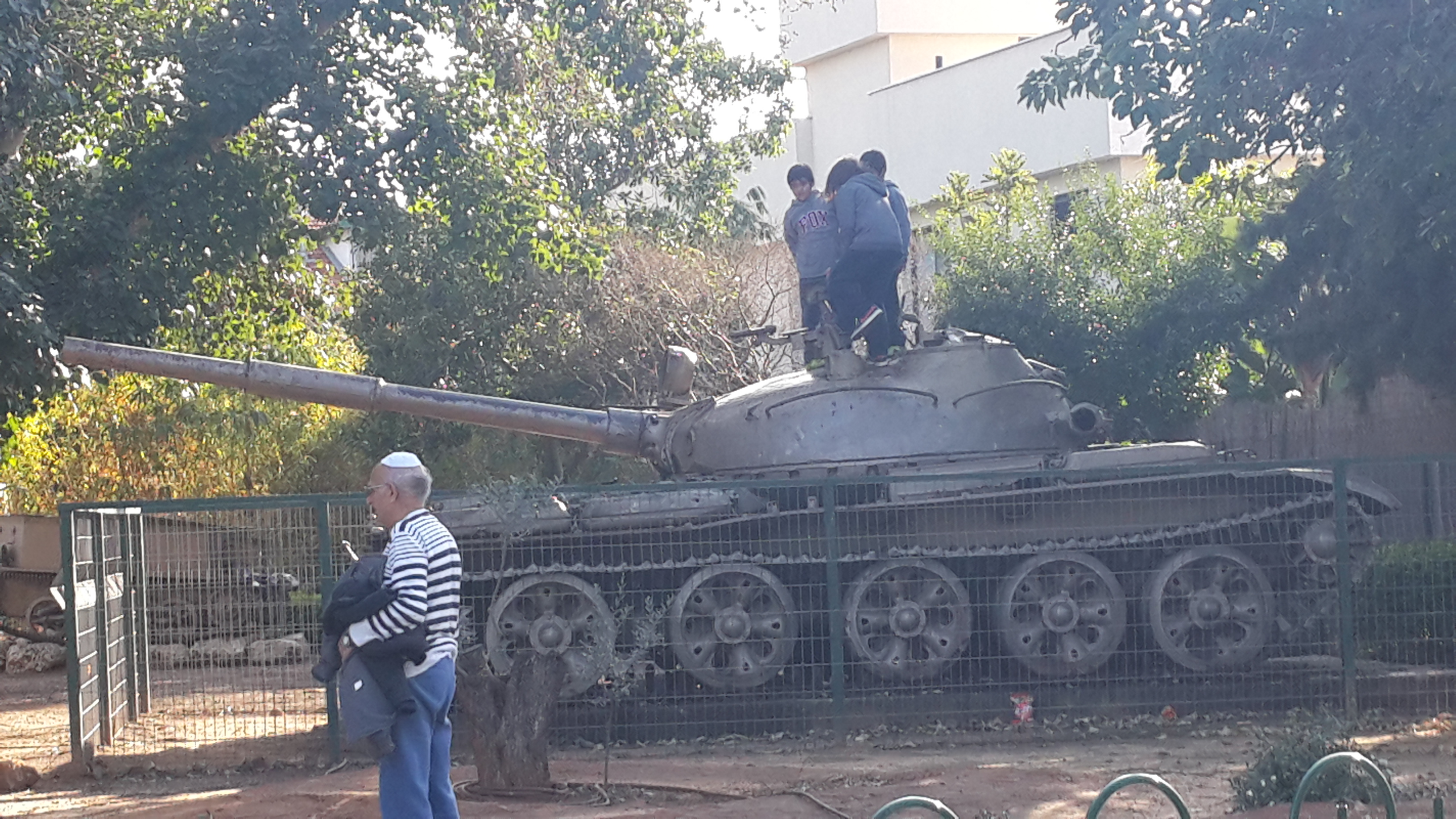 T-62 tank with the opposite turret in Petah-Tikva